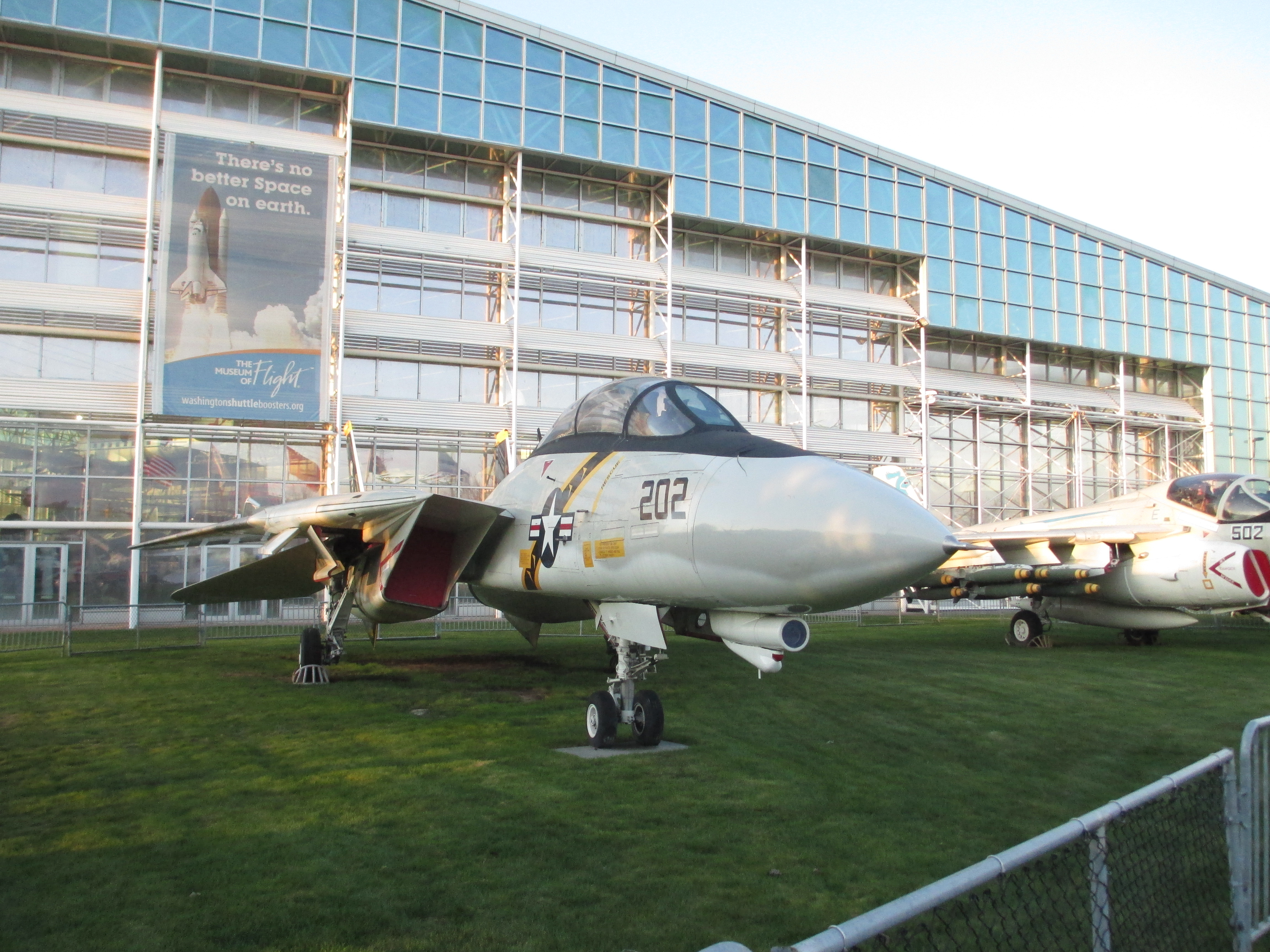 A Grumman F-14A Tomcat of VF-84 "Jolly Rogers" on display at the Museum of Flight in Seattle, Washington.